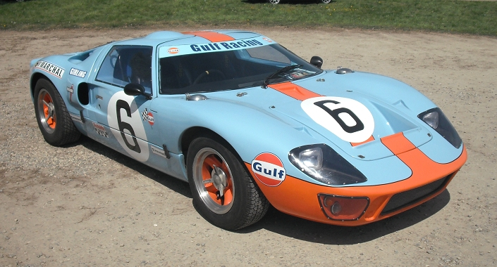 Gulf Racer; Ford GT40 Replica